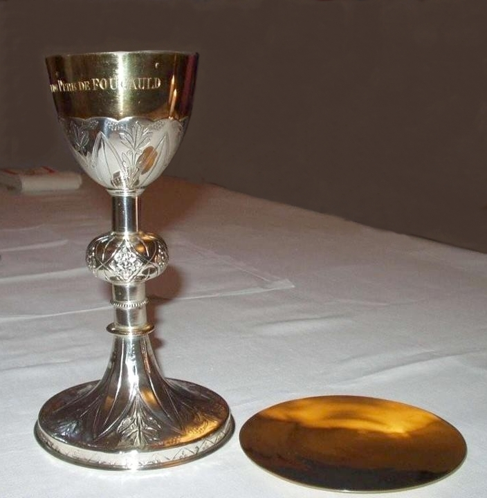 The chalice and paten of Charles de Foucauld. Community of Little Sisters of Jesus in Tre Fontane, Rome. The chapel of Tre Fontane is a replica of Charles de Foucauld's chapel in Béni Abbès, and a place of pilgrimage.